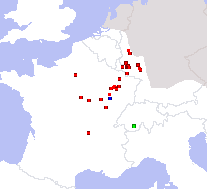 Distribution of epigraphic inscriptions dedicated to Rosmerta (in red), and also to Cantismerta (green: one attestation, in Switzerland) and Atesmerta (blue: one attestation, in Champagne). Off map: Sarmizegetusa (in modern-day Transylvania), one attestation for Rosmerta.